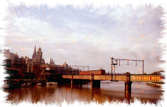 The old Former Sandridge Railway Bridge over the Yarra River. Photo recovered from old Diapositiv like all pics from Australia. The lovely red train. Red Rattler.